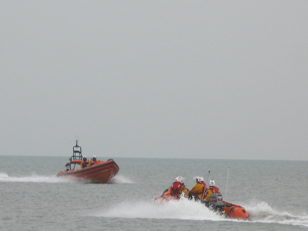 The Minehad lifeboats approach each other off the Somerset coast. On the left is Atlantic 85 B824 Richard and Elizabeth Deaves; on the right D712 Christine.